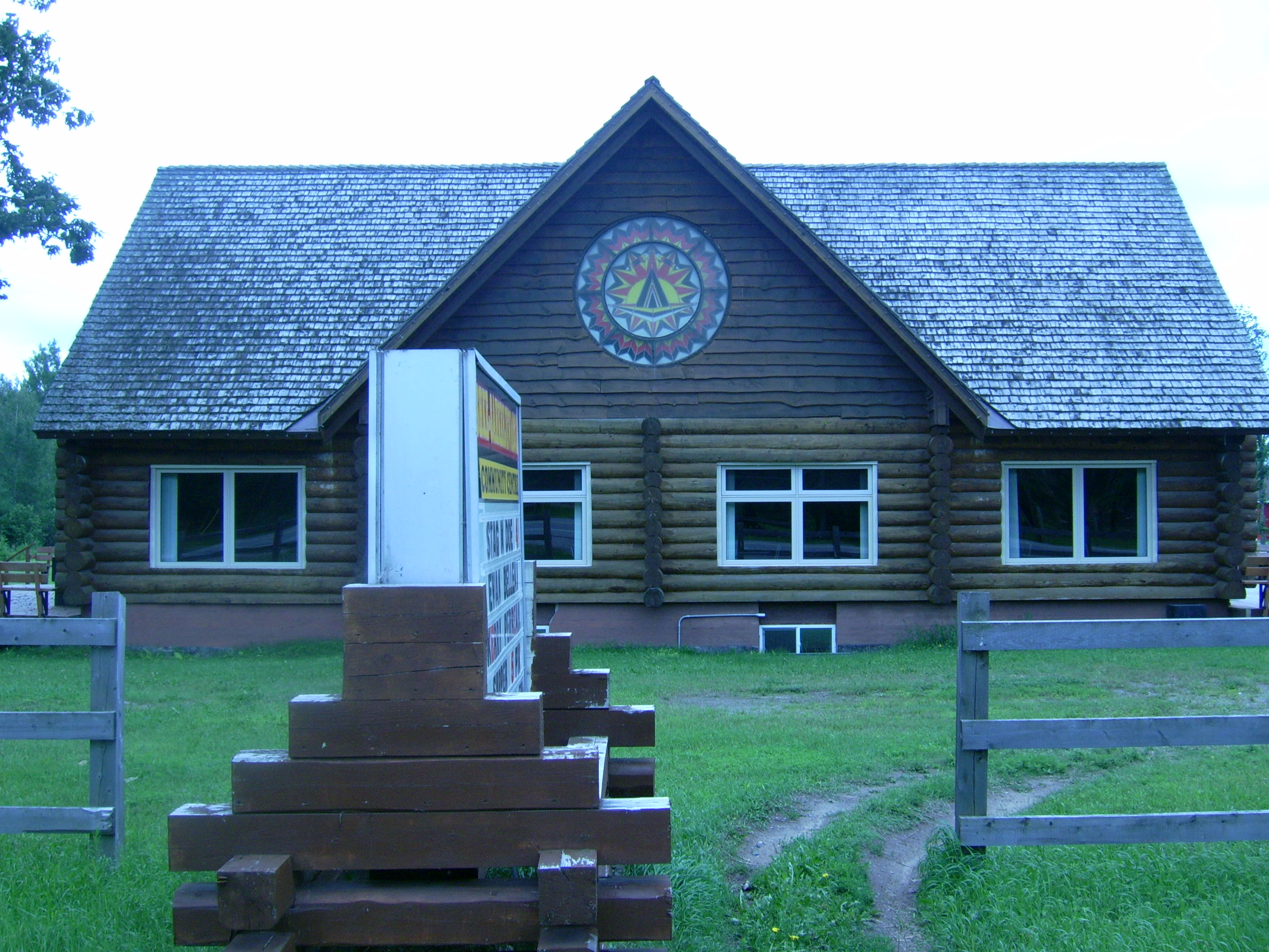 Shke-Sahkejhewaosa Community Centre, Garden River First Nation.